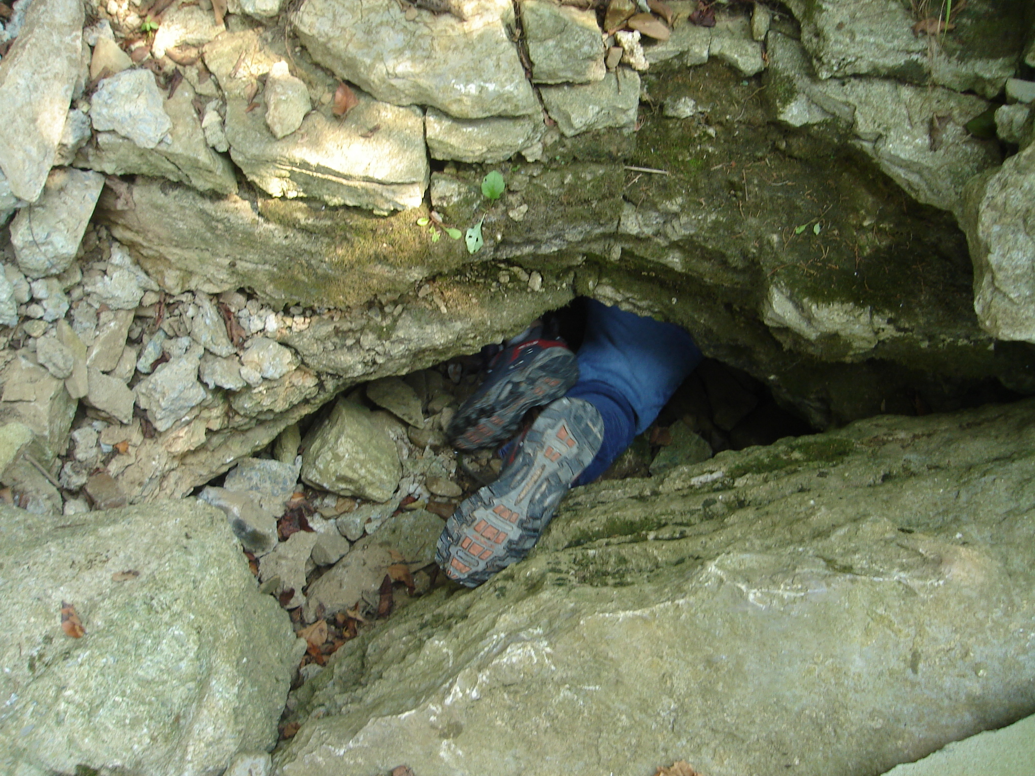 The smaller entrance to Gillepsie Cave. Only non-commercial or educational use of this file is permitted.